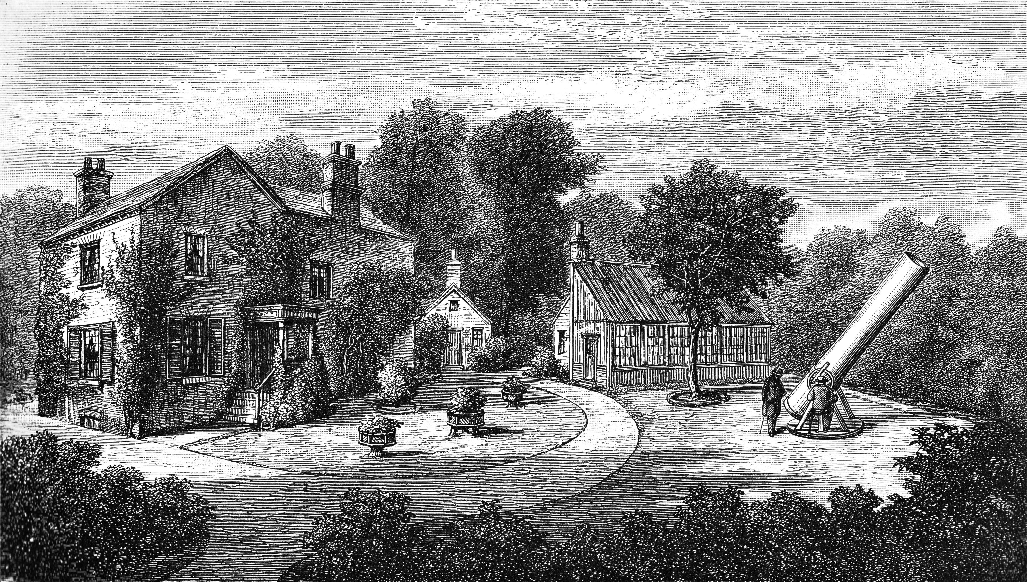 Firesside, Patricroft